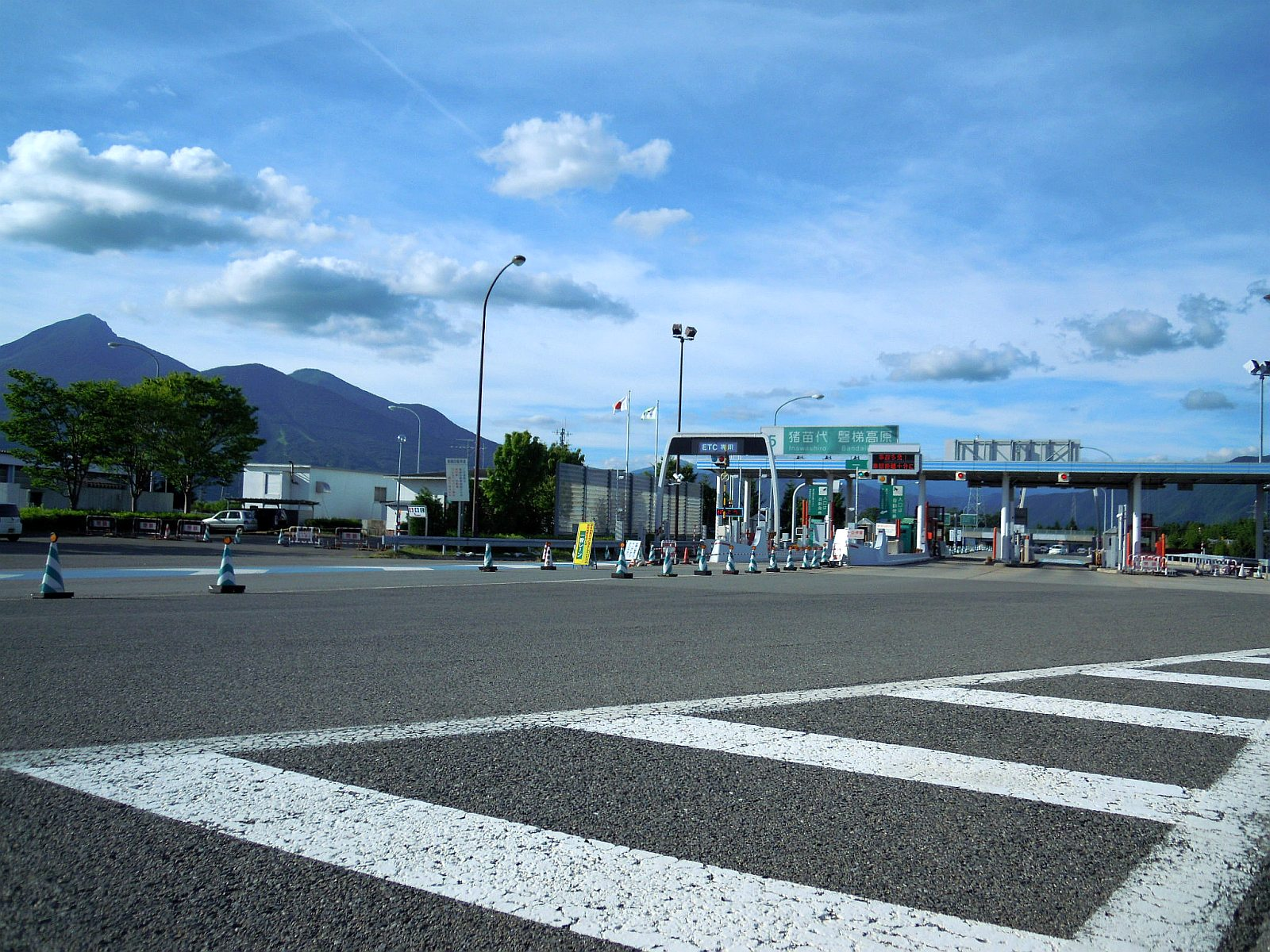 This Interchange, Inawashiro-Bandaikogen Interchange, is on Ban'etsu Expressway, in Inawashiro Town, Fukushima Prefecture, Japan.